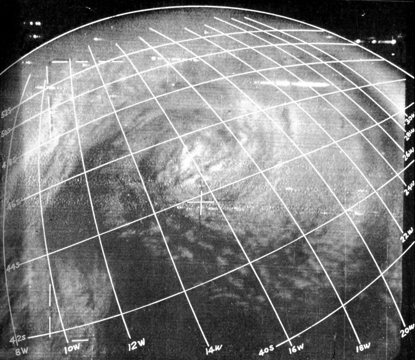 TIROS I image showing cyclone centered at 17W, 45 S in South Atlantic. Monthly Weather Review, July 1961, p. 235.